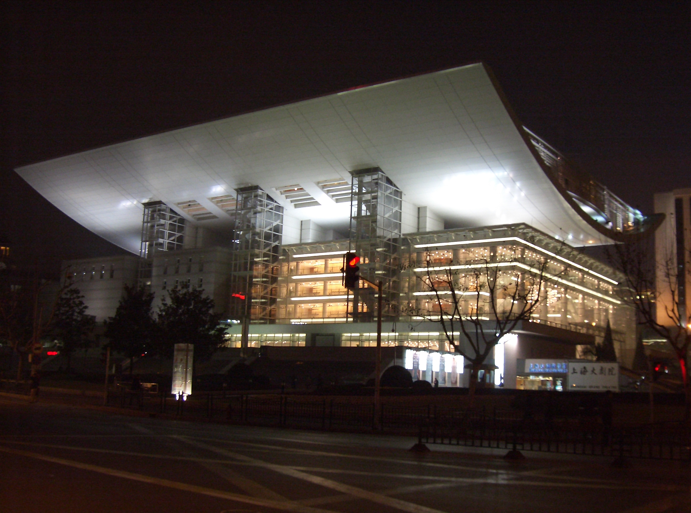 The Shanghai Grand Theatre, taken at night.